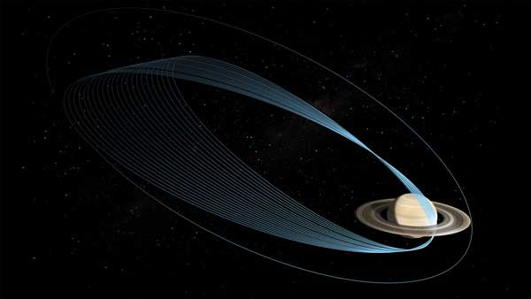 Cassini spacecraft final loops passing through the gap between Saturn and its innermost ring. (artist vision)